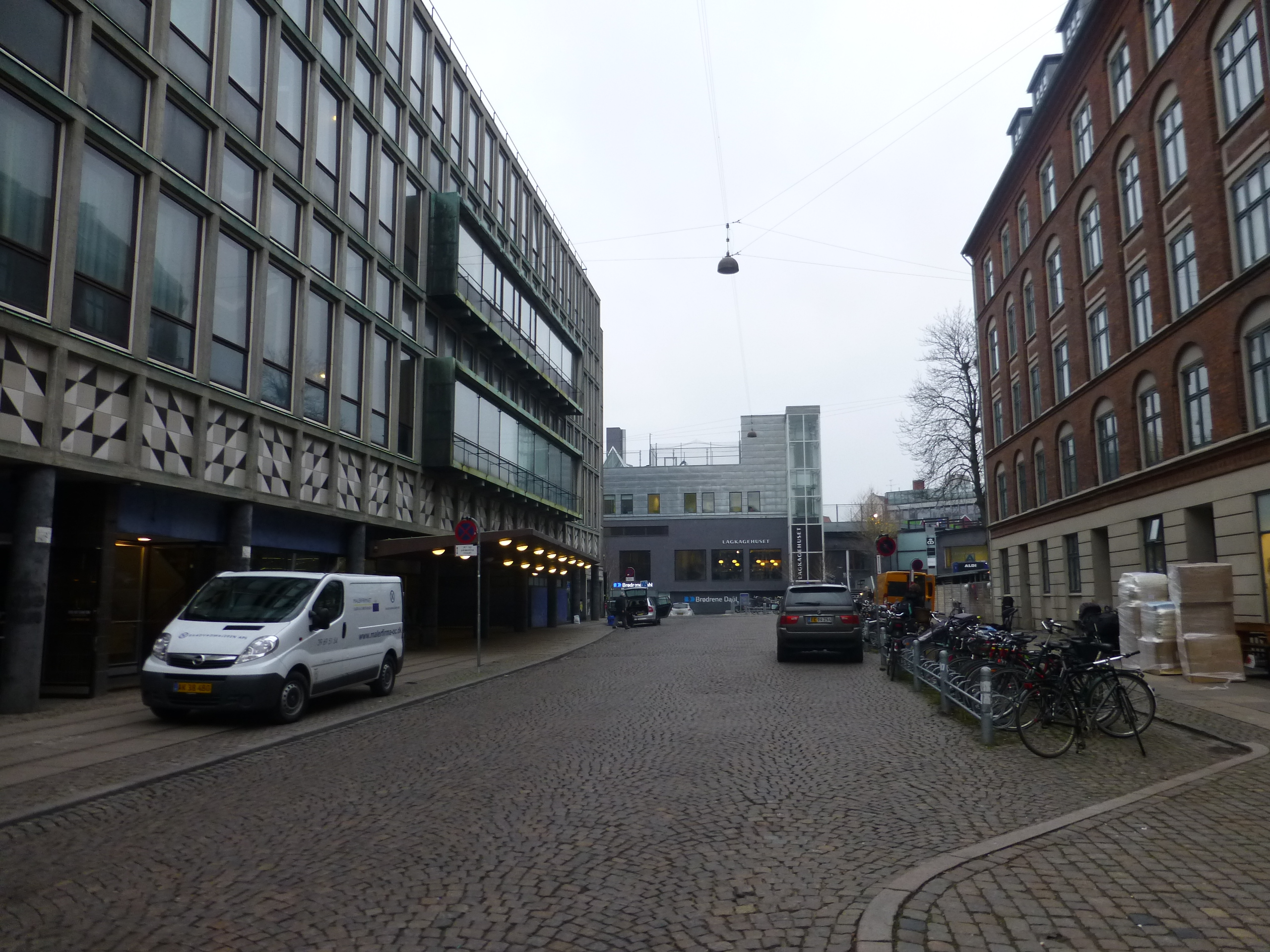 The street Rejsbygade in Vesterbro in Copenhagen.